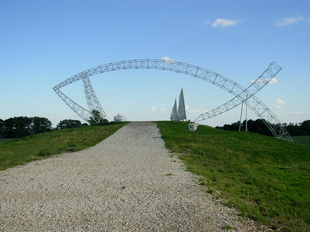 Third Millenium Gate near Lednica lake